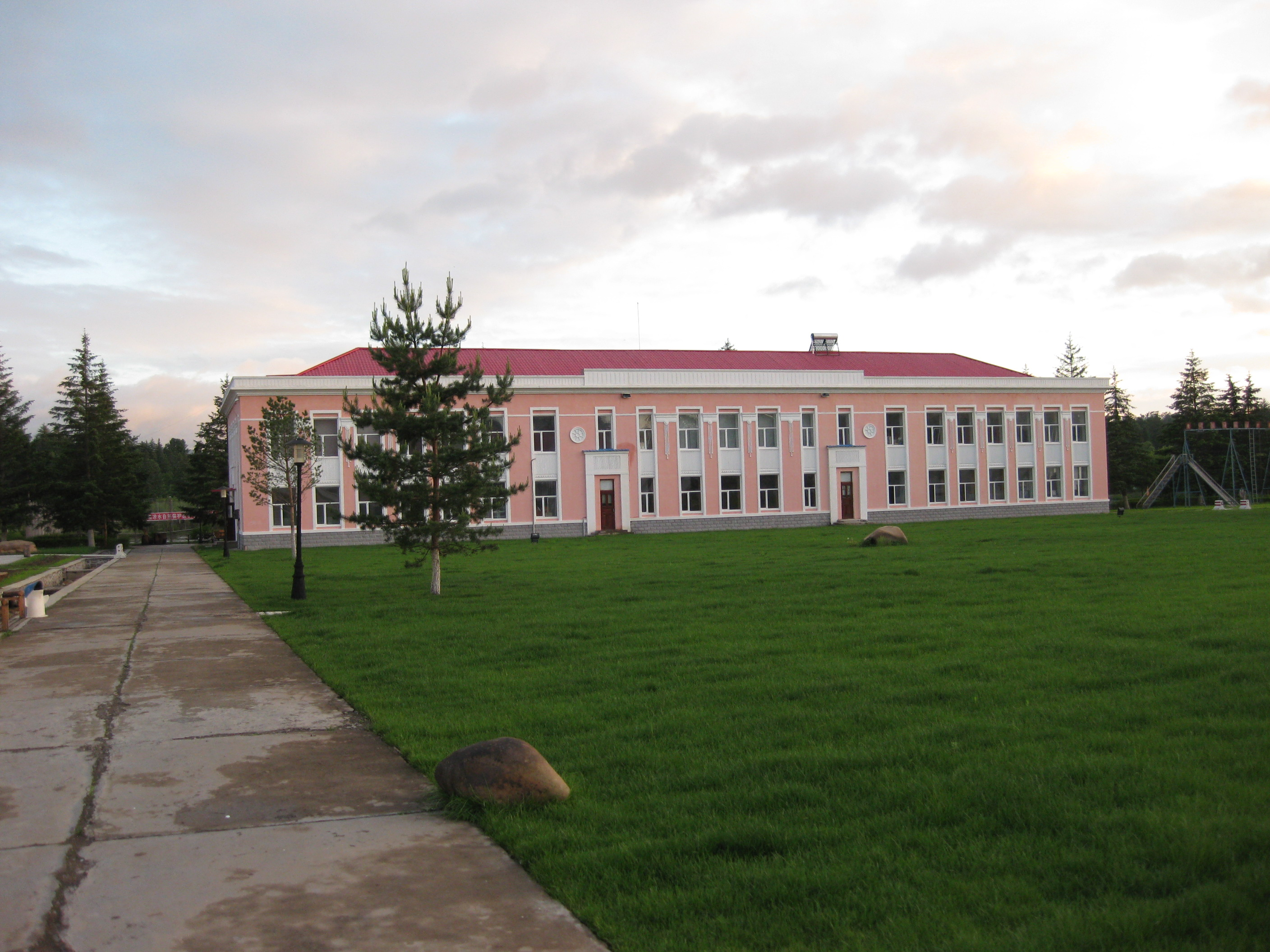 Liangshui Forestry Experimental Center, NEFU